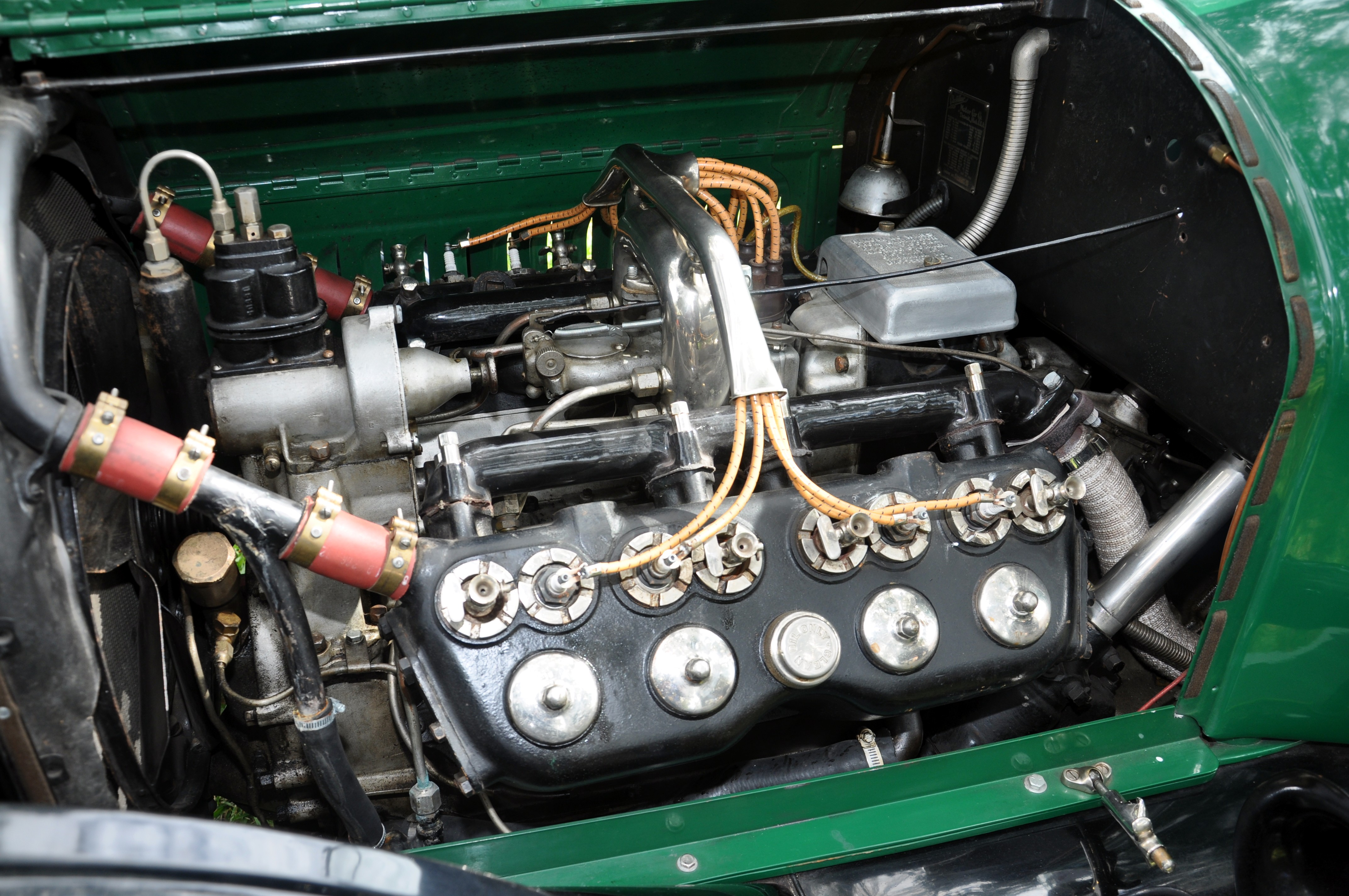 1915 Cadillac V8 engine USA's first V8 St Petersburg